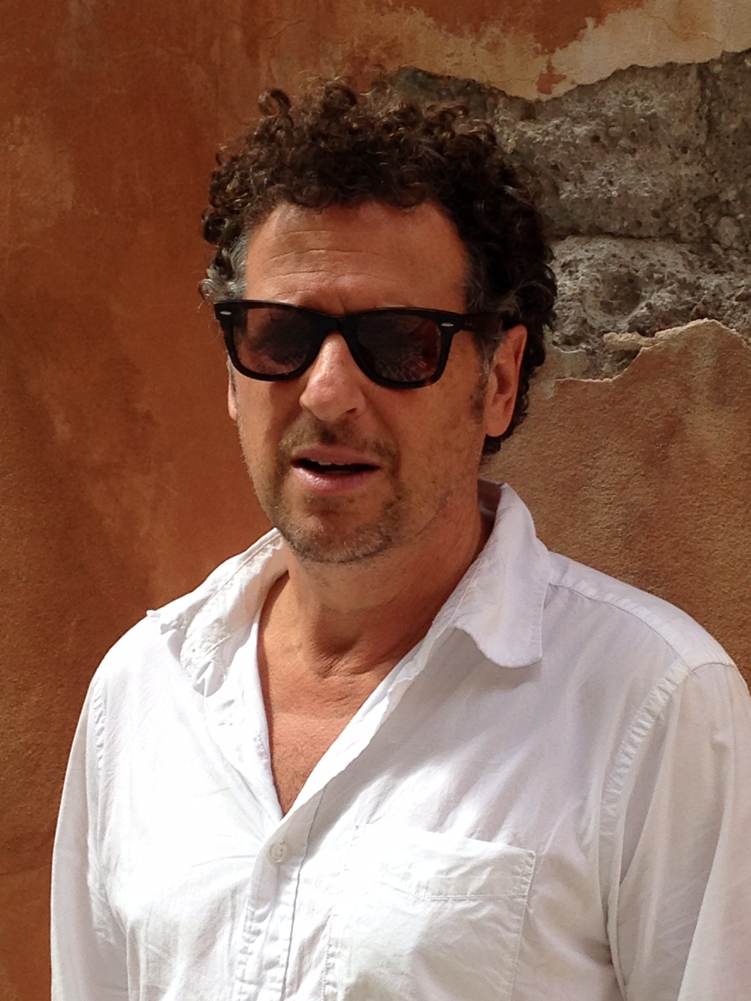 Portrait